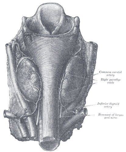 Parathyroid glands. (Halsted and Evans.)